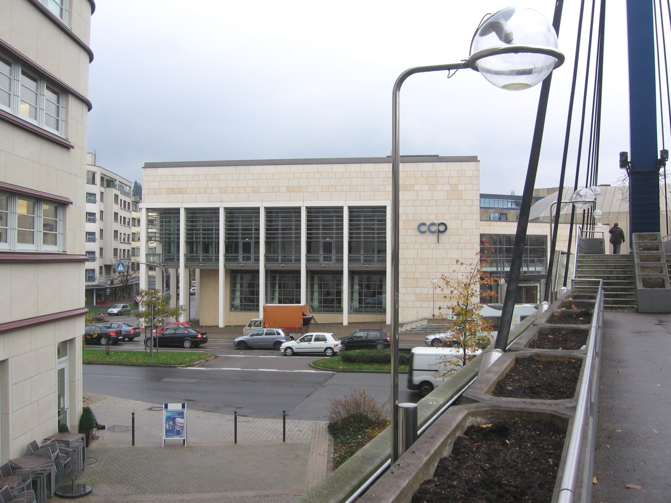 CongressCenter Pforzheim